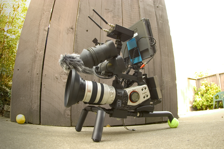 Canon XL2 video camera